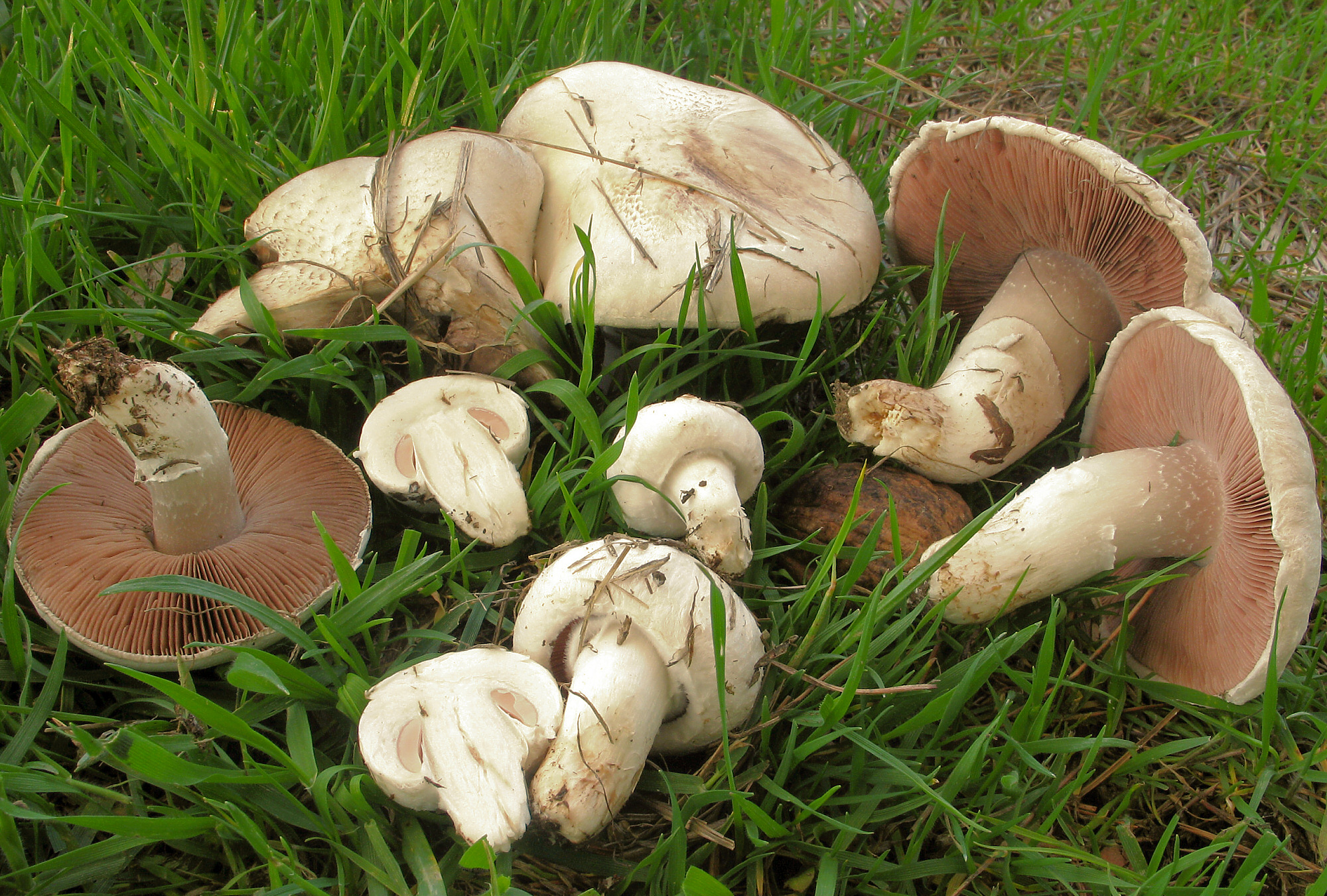 Agaricus campestris L. Image location: Davis, California, USA Same location as observations 62056 & 64359. Smell mild, KOH- Spore range = 8 – 9 × 6 – 7 μ Average spore = 8.47 × 6.53 μ Average Q = 1.38 15 spores measured on a gill Recognized by sight Used references: Mushroomexpert Based on microscopic features For more information about this, see the observation page at Mushroom Observer.